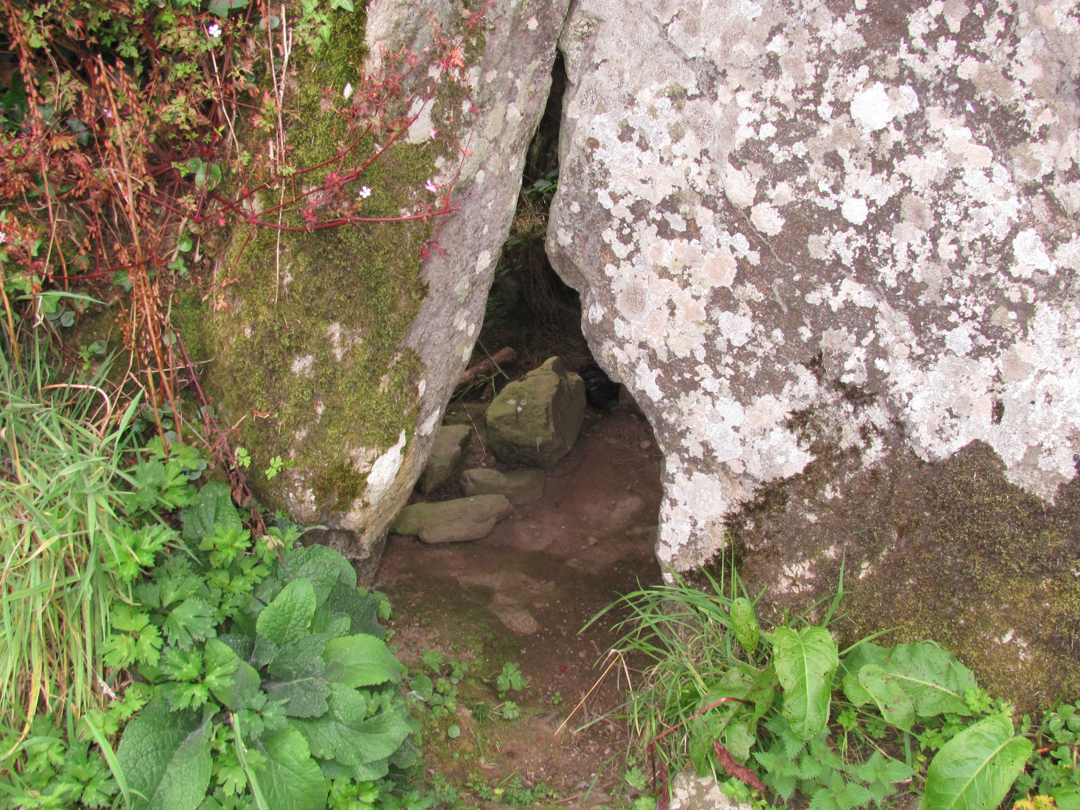 Knockeens Dolmen